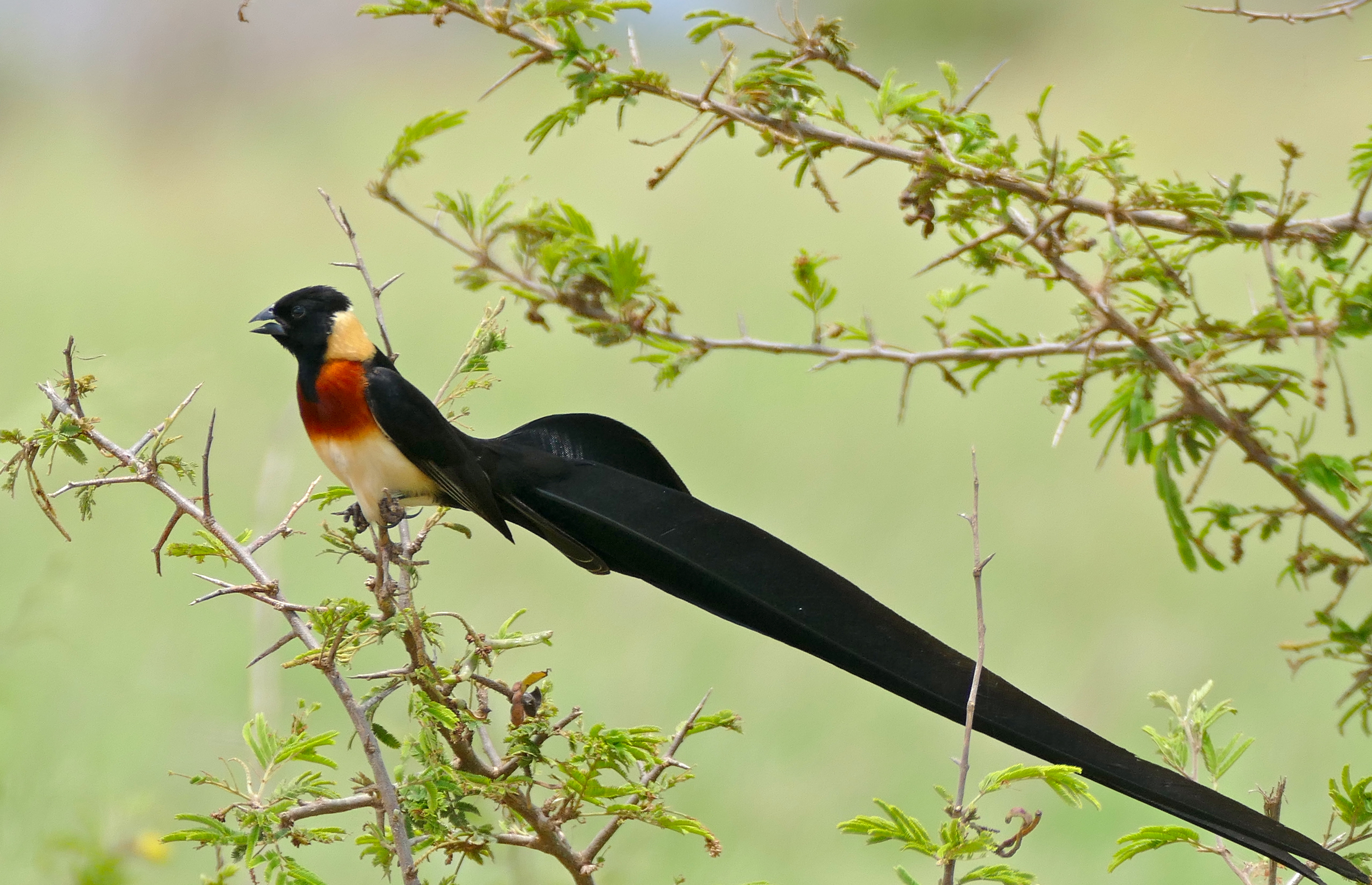 S90 Road North of Satara, Kruger NP, SOUTH AFRICA